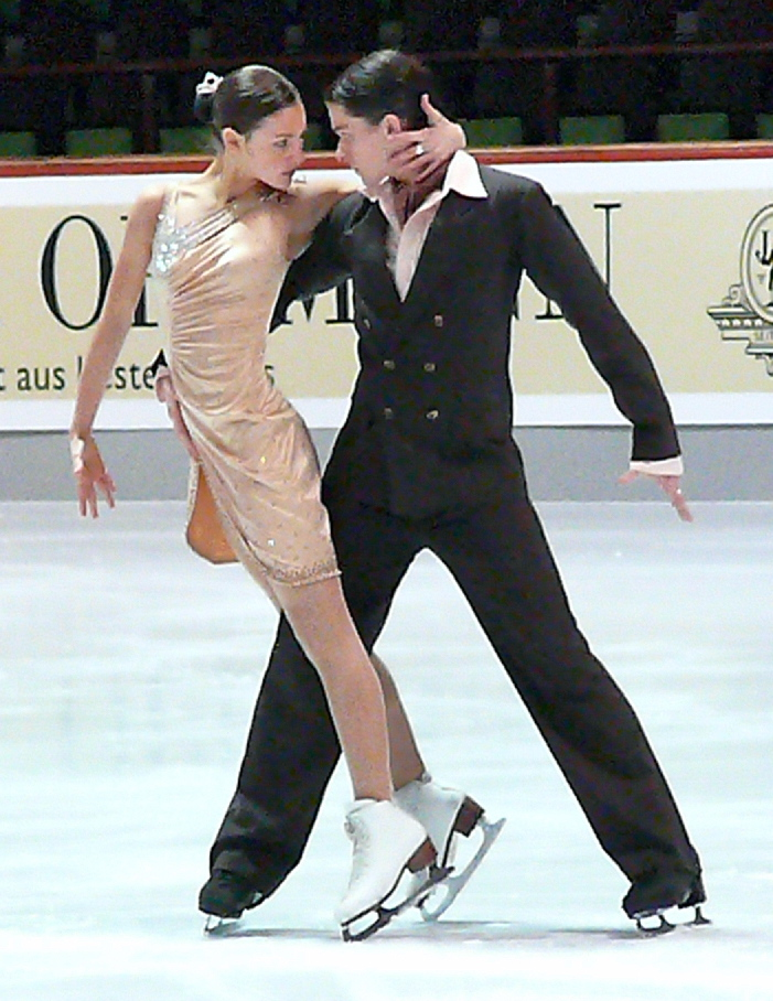 Tanja Kolbe and Sascha Rabe at the Original Dance at the German Junior Championships 2007 in Oberstdorf (Tango)